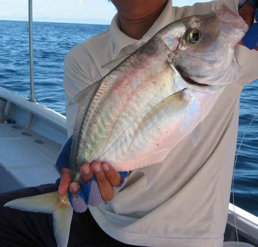 Carangoides talamparoides, Sri Lanka